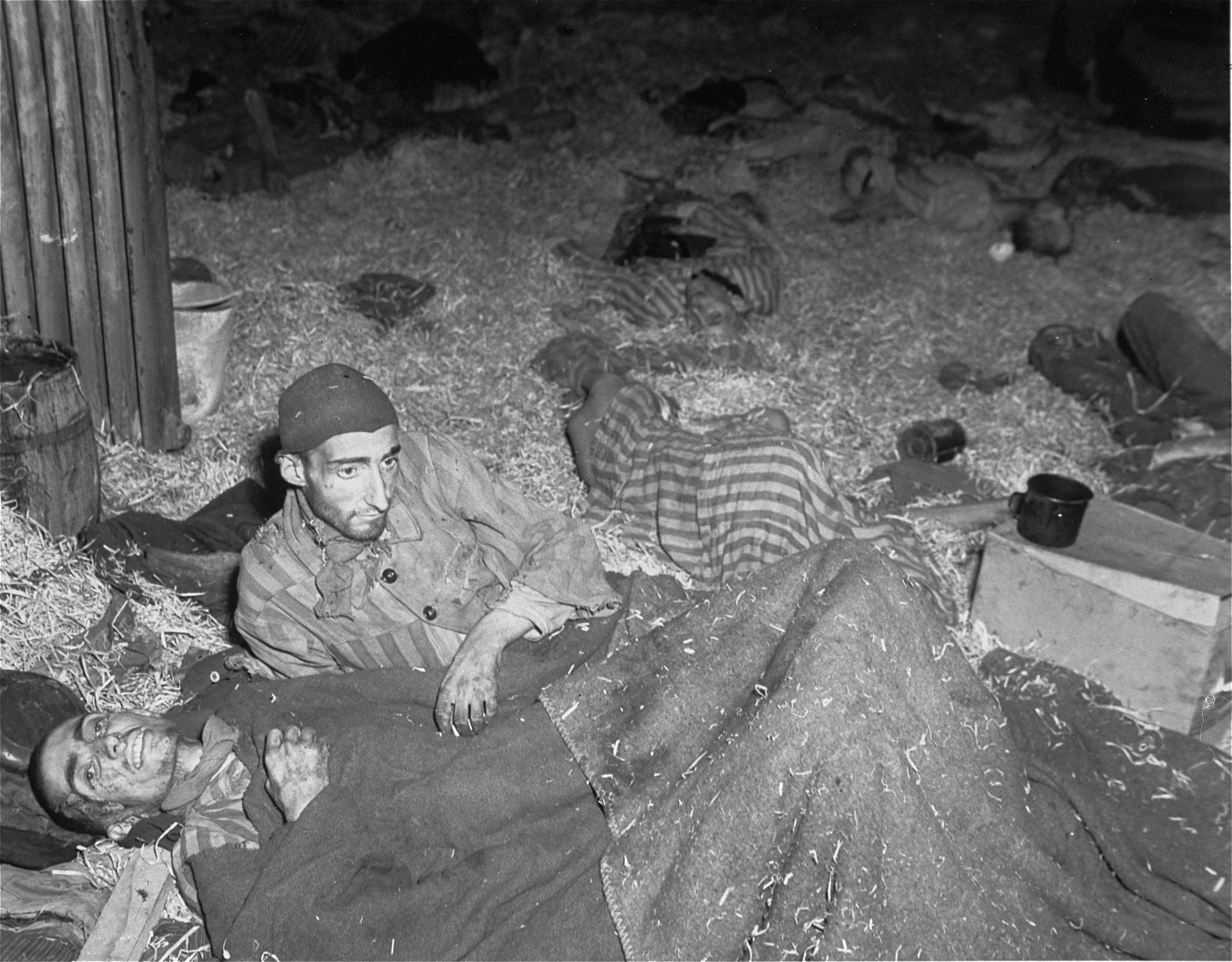 Two survivors lie among corpses on the straw-covered floor of Boelcke's barracks.